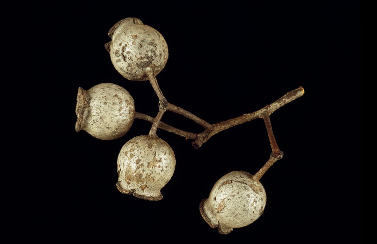 Fruit of Corymbia umbonata at Katherine Gorge, Northern Territory